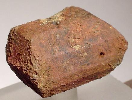 Thorite Locality: Kemp prospect (Kemp property; Kemp uranium mine), Cardiff Township, Haliburton County, Ontario, Canada (Locality at ) A sharp, euhedral, pristine, rust-brown thorite crystal from the less well-known Kemp Uranium Mine in Cheddar, Ontario, Canada. This is remarkable for the size! 2.2 x 1.7 x 1.3 cm